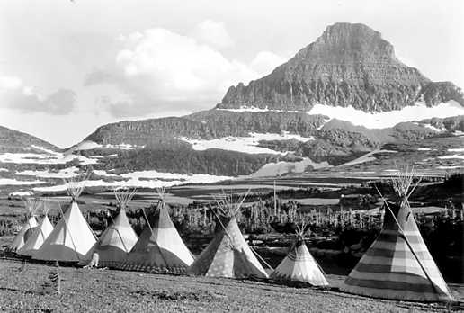 Image Description Approximate Year: 1933 Park: Glacier National Park Photographer: Grant, George A. Description: Blackfeet Teepees, summit of Logan Pass, Mount Reynolds. (One of the images made by Grant during the Going-to-the-Sun Highway Dedication, July 15, 1933). URL: Photo courtesy of the US National Park Service Historic Photograph Collection.